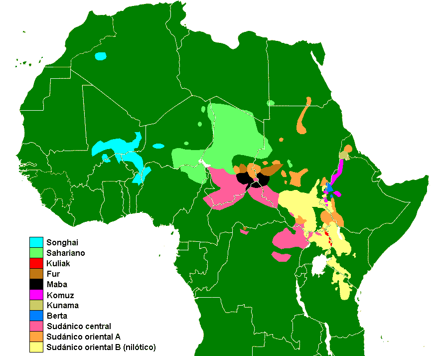 Nilo-Saharan languages distribution